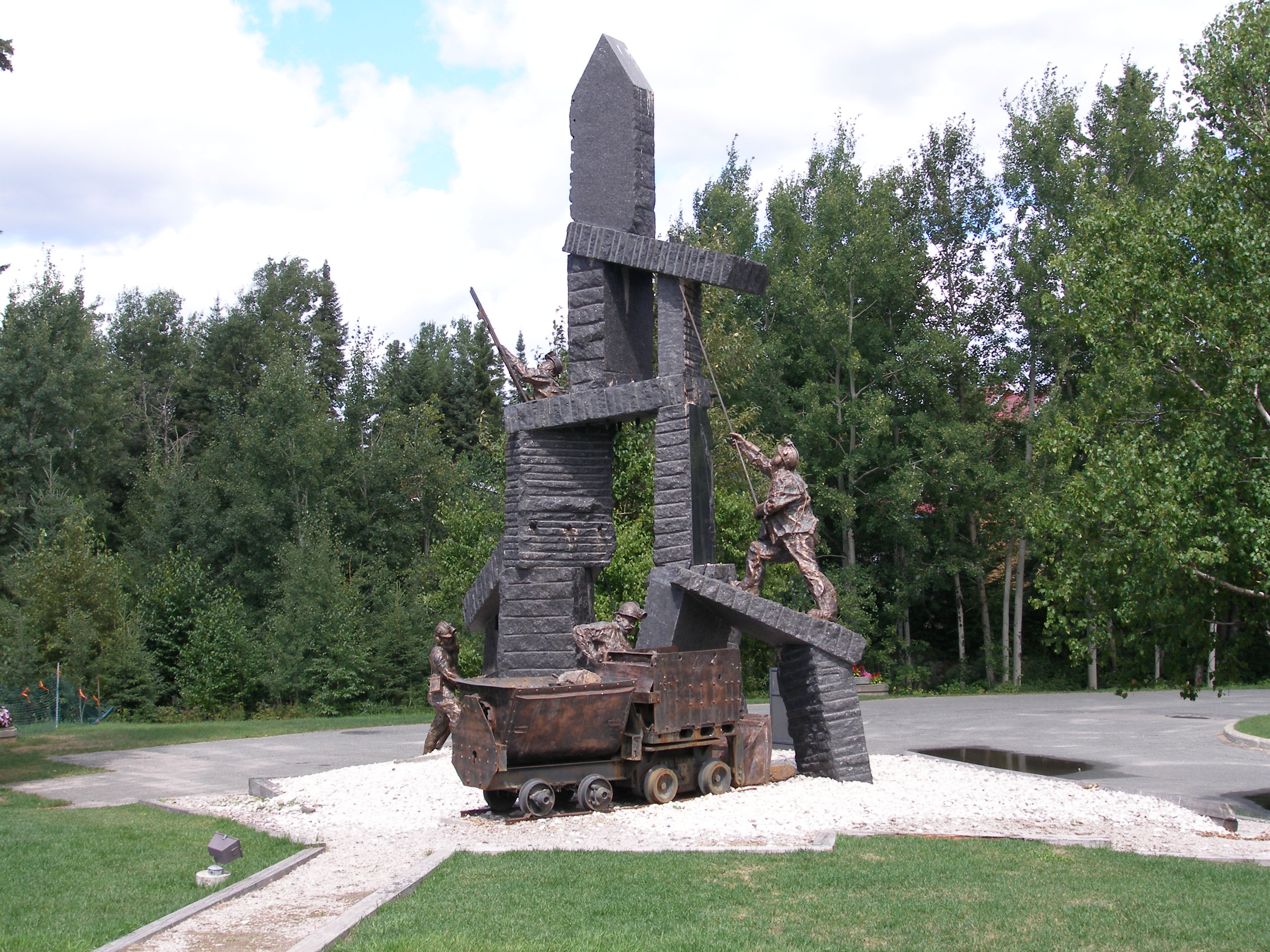 Miners Memorial by Rob Moir and Sally Lawrence in Kirkland Lake